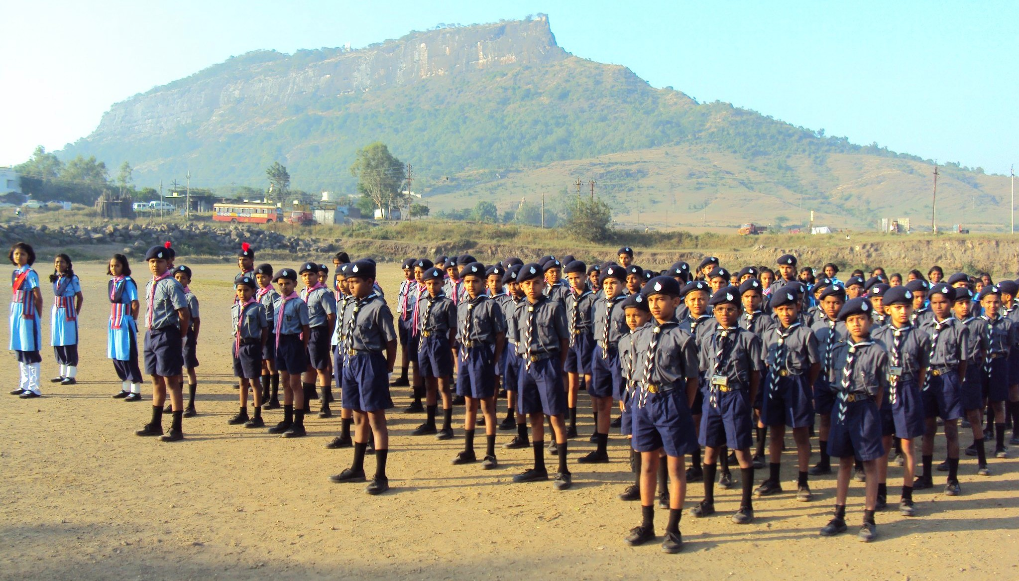 Scouts at Shankarrao Butte Patil Vidyalaya